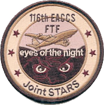 116th Expeditionary Airborne Command and Control Squadron - Emblem